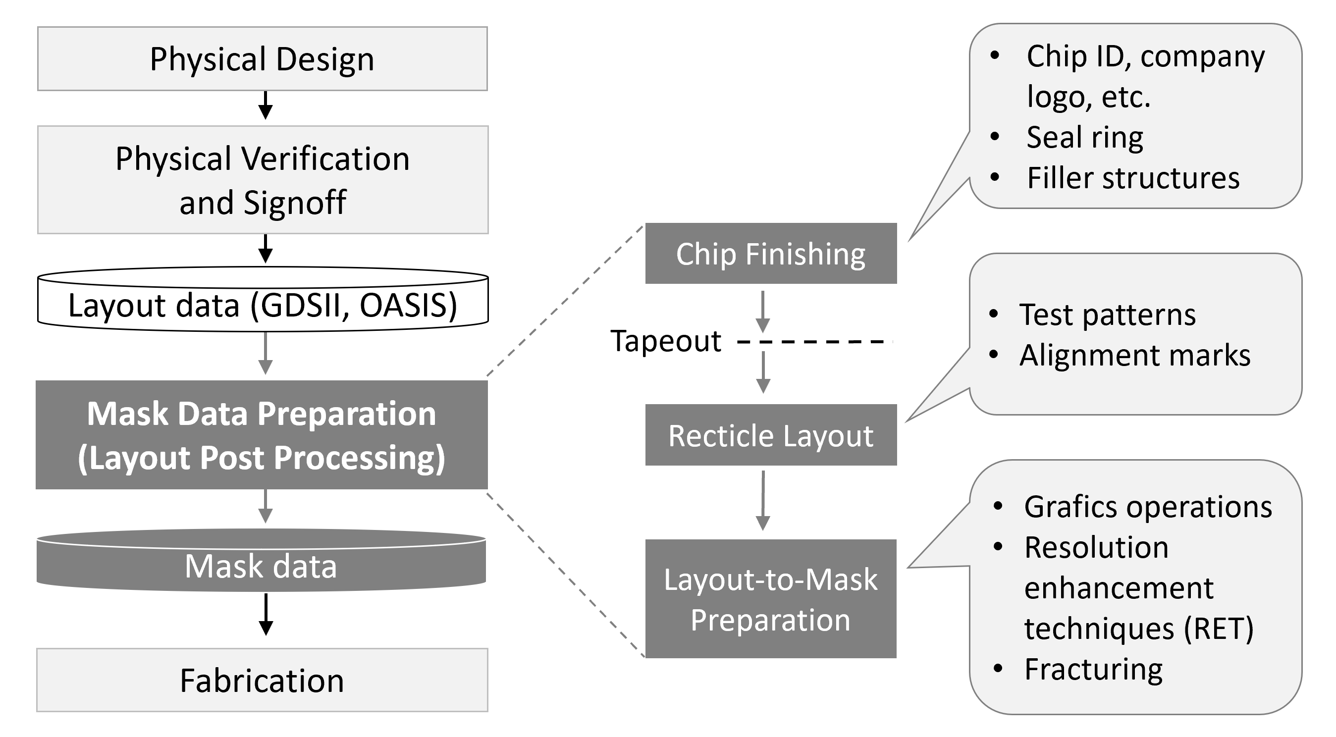 Major steps in mask data preparation where amendments and additions to the layout data are performed in order to convert it into mask data. This step is also known as Layout Post Processing.